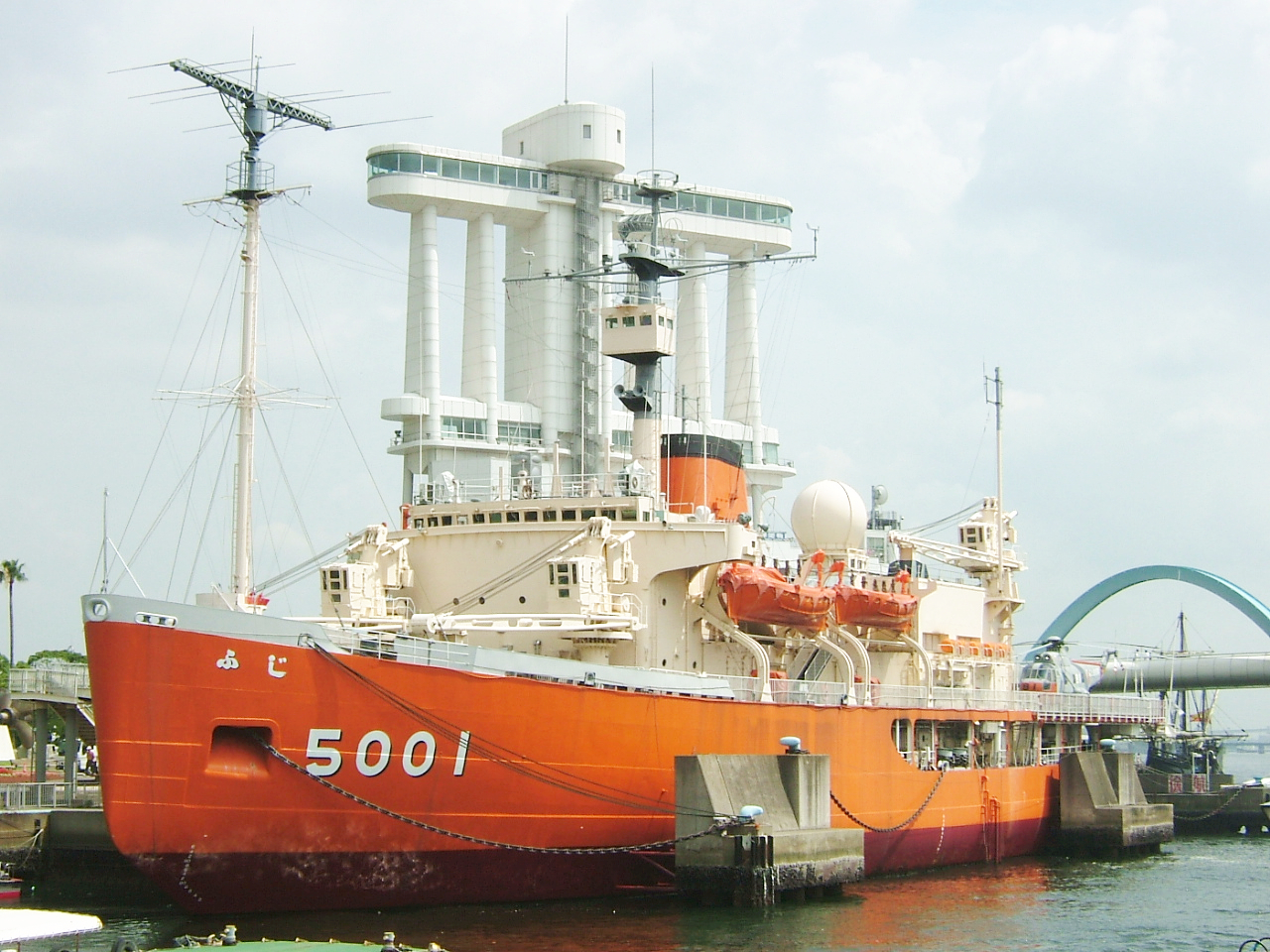 Antarctic Museum Fuji.The icebreaker of Japan which played an active part till 1965-1983.After finishing a duty, it is moored to the garden wharf of the Nagoya Port, and general public presentation is carried out.